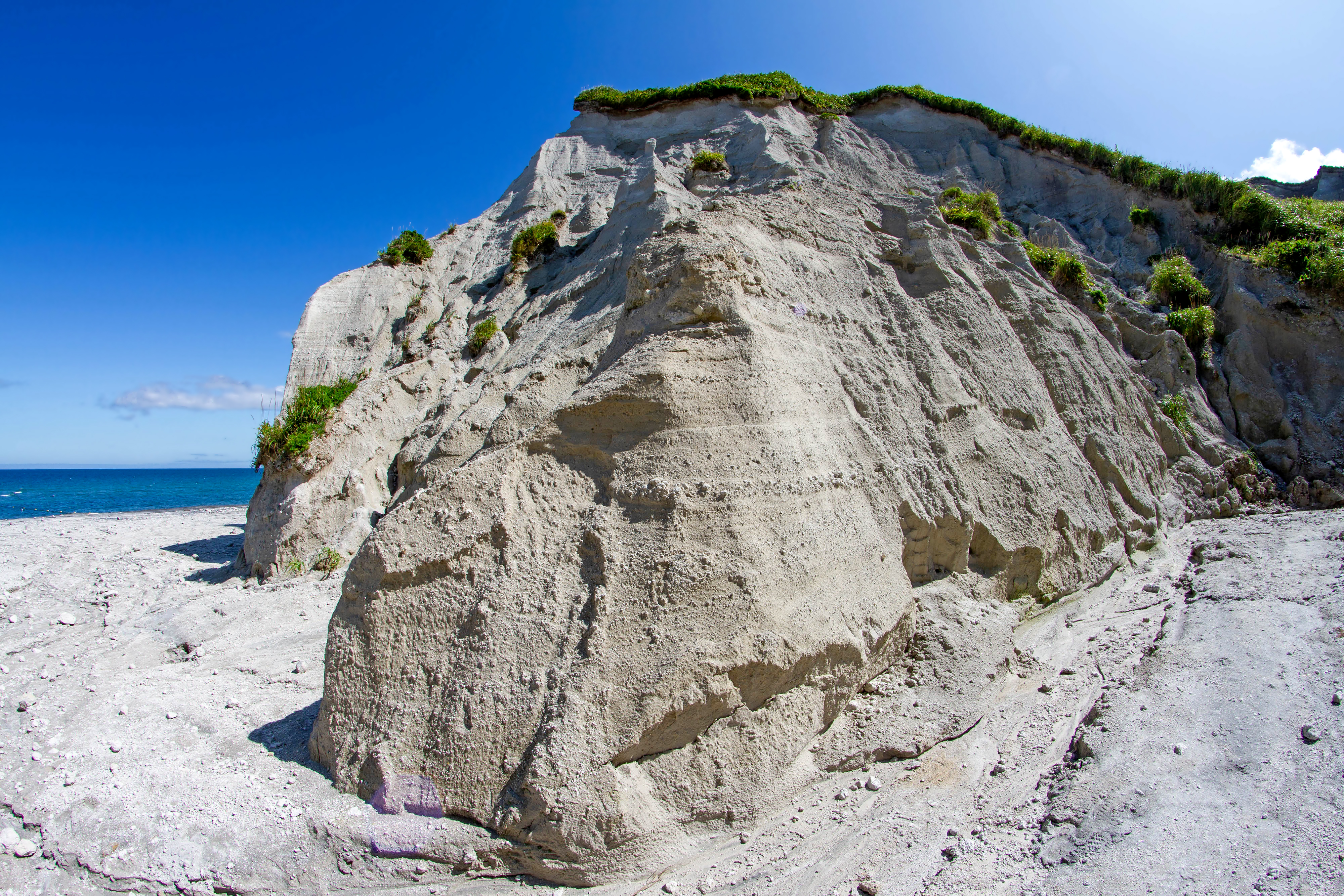 Iturup Island nature, fall 2019